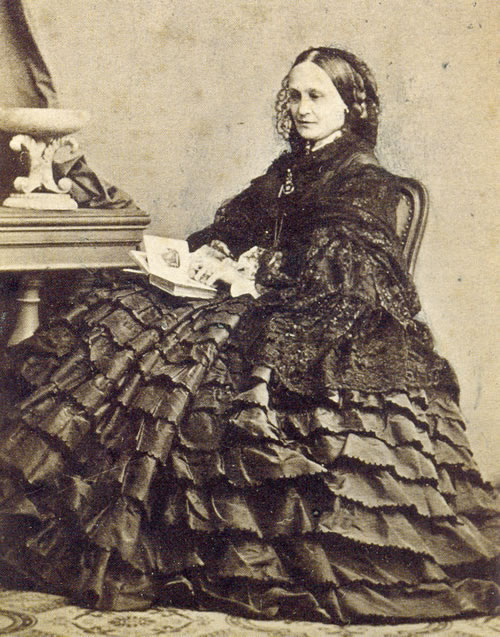 Natalia Nikolaevna Pushkina-Lanskaya, born Goncharova. Early 1860s. Photographic portrait. The National Pushkin Museum